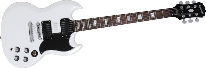 Epiphone Limited Edition G-400 Electric Guitar with EMG Pickups (Alpine White)